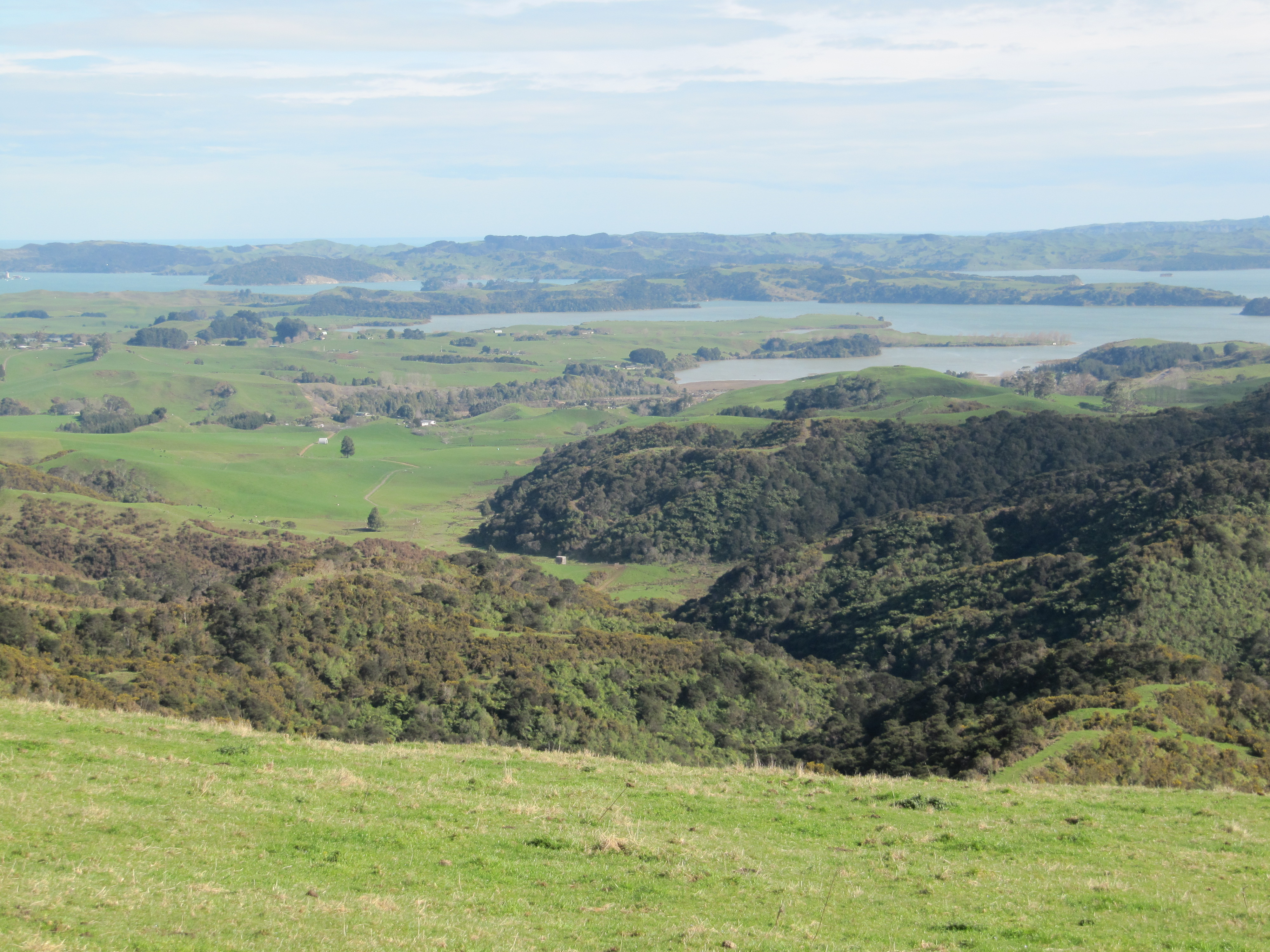 lack of trees